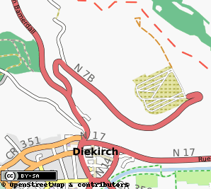 Map of dead end road to Herrenberg near Diekirch, Luxembourg.